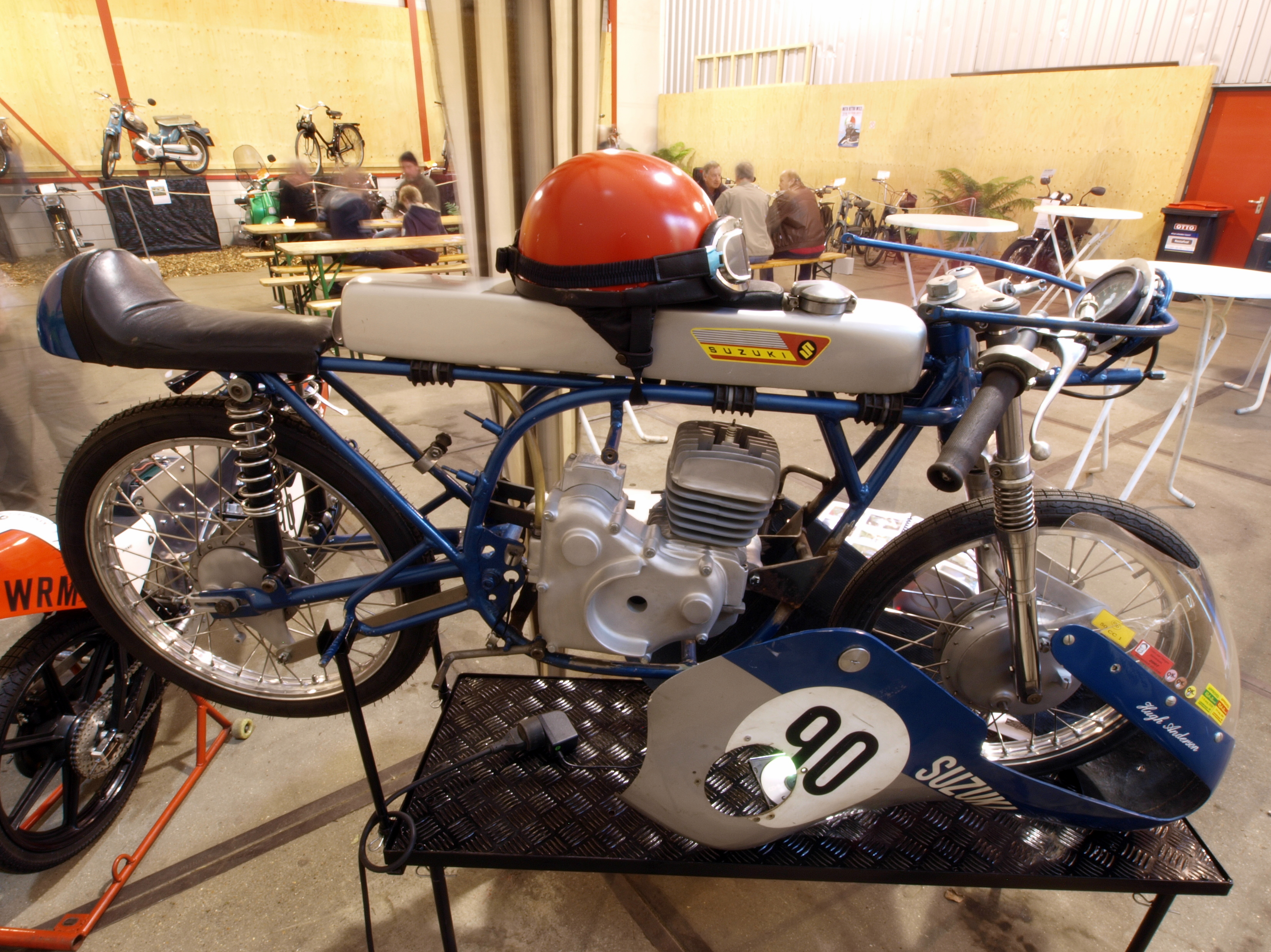 Photographed at the Bromfietsshow Bollenstreek 2010, The Netherlands.